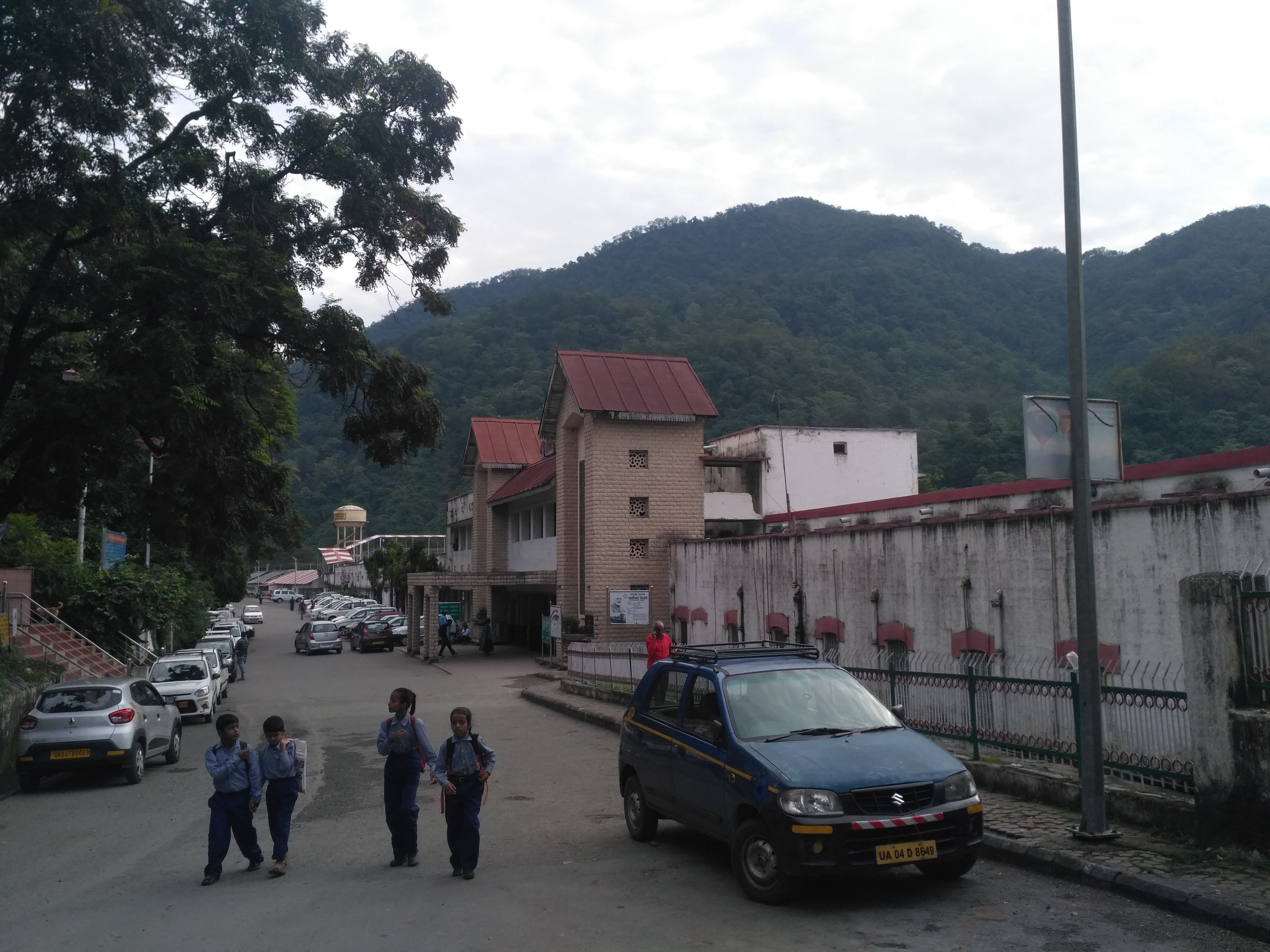 Kathgodam railway station in Uttarakhand state, India